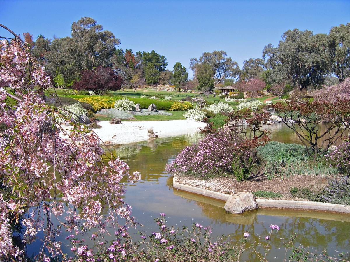 Lower lake with spring blossoms (chiefly cherry blossoms) at the Japanese Gardens, Cowra, NSW, Australia, 22 September, 2006.